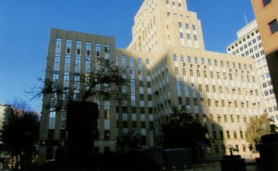 This is the Chamber of mines building in Main street and Saur streets. It is a building that belongs to the Johannesburg Chamber of Mines South Africa.